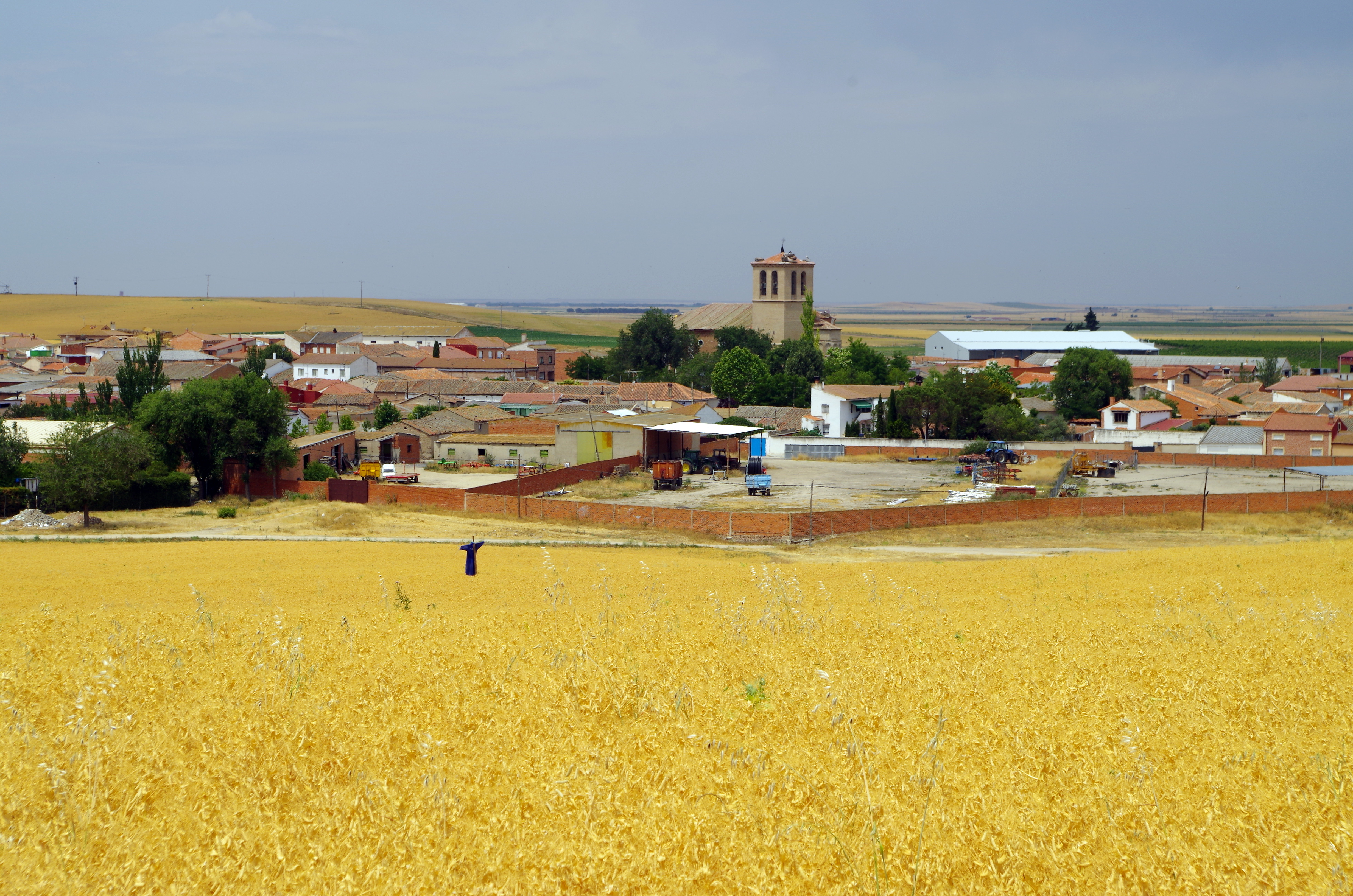 Bobadilla del Campo and pea field (Valladolid, Spain)